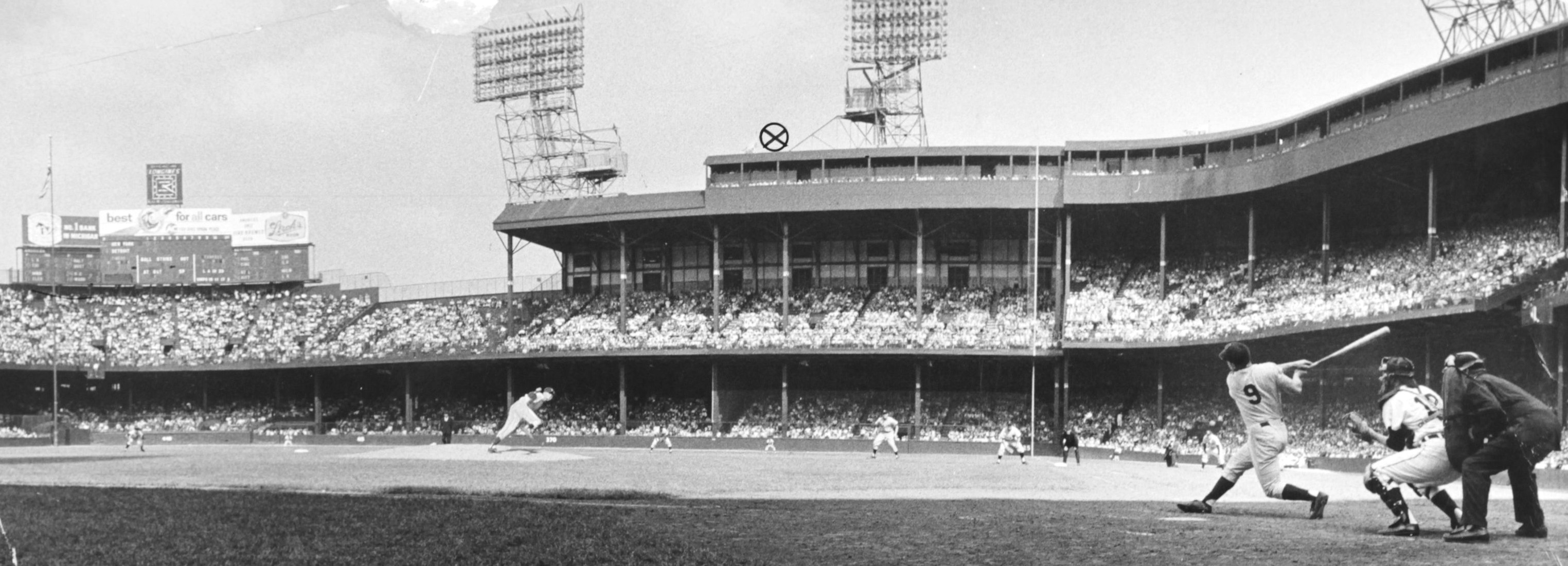 New York Yankees outfielder Roger Maris hits a home run to right field (maked with ×) in the top of the 12th inning off Detroit Tigers pitcher Terry Fox at Tiger Stadium in Detroit, Michigan. It would prove to be the winning run as the Yankees went on to win, 6–4.